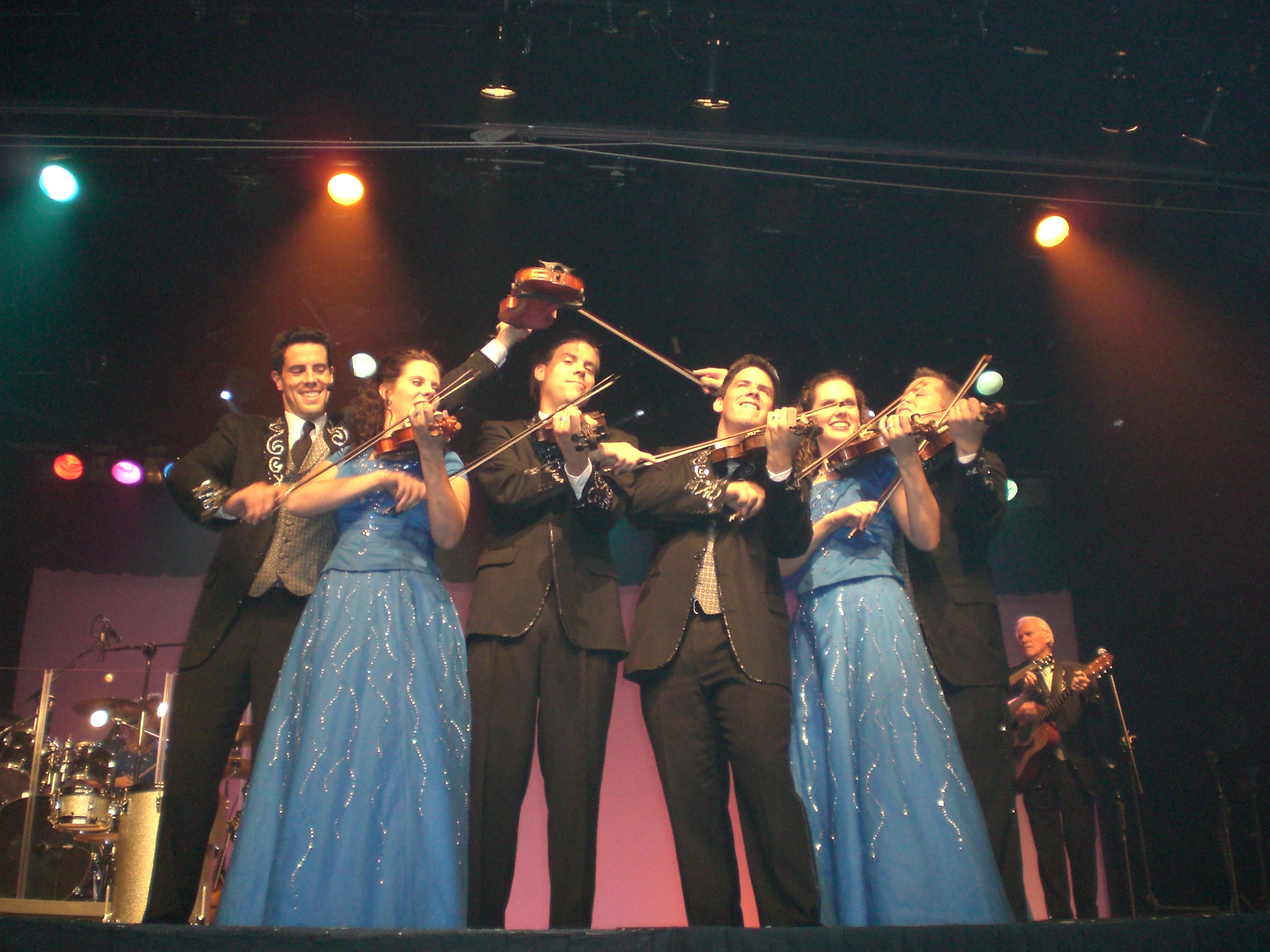 The Duttons, at their theater in Branson, Missouri, performing their famous "Boil Them Cabbage Down" song in which they all play each other's fiddles